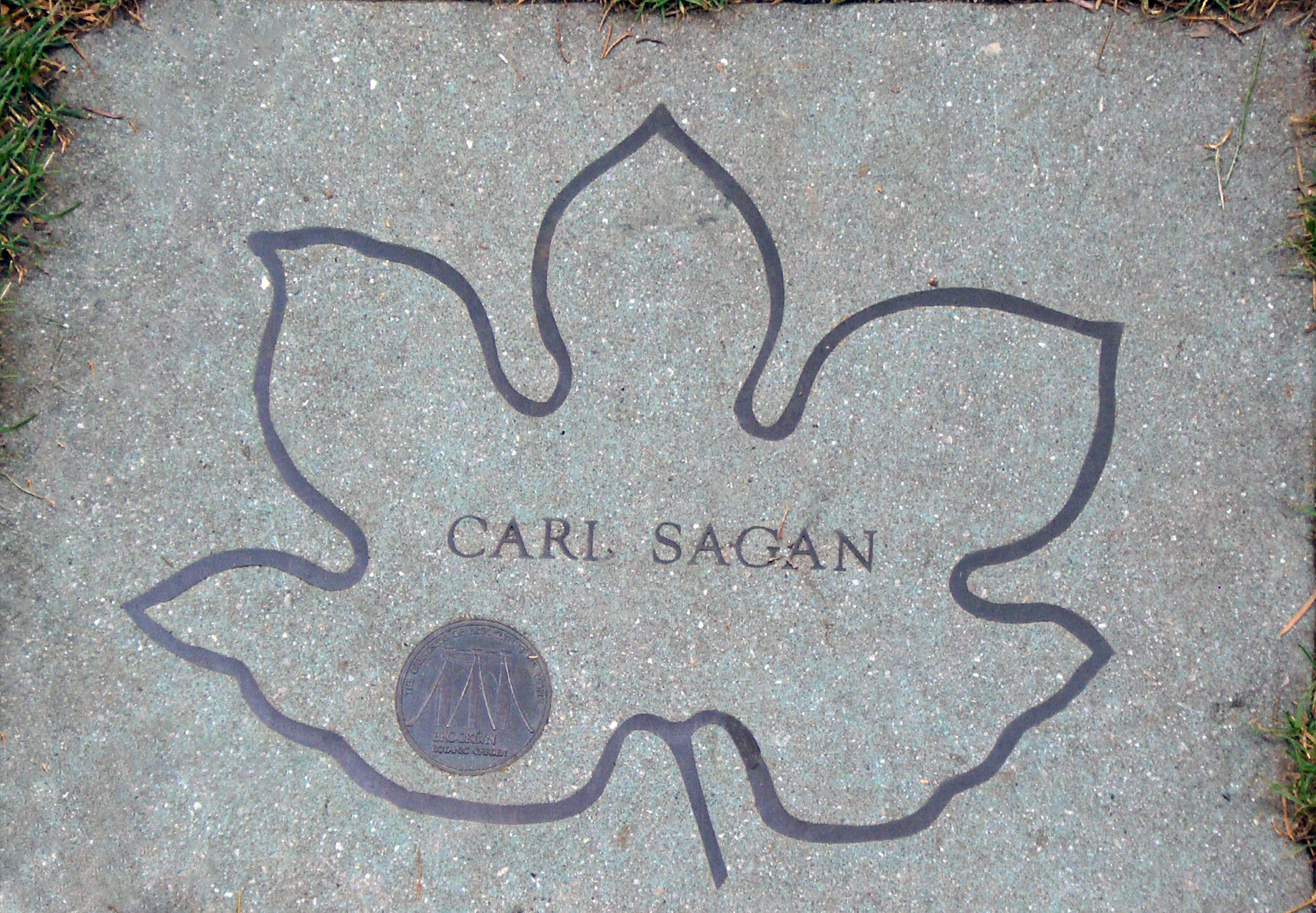 New York City. Stone dedicated to Carl Sagan at Brooklyn Botanical Garden.